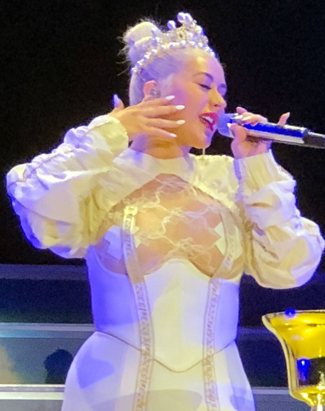 American recording artist Christina Aguilera performing "Deserve". The performance took place at the Pepsi Center in Denver, Colorado, on October 19, 2018.